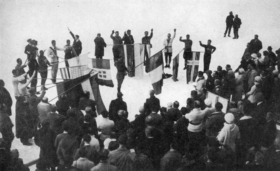 Flagbearers for each of the participating nations at the 1924 Winter Olympics take the athlete's oath